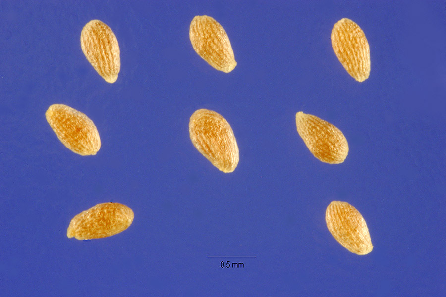 Artemisia annua seeds from Steve Hurst. Provided by ARS Systematic Botany and Mycology Laboratory. China, Tientsin